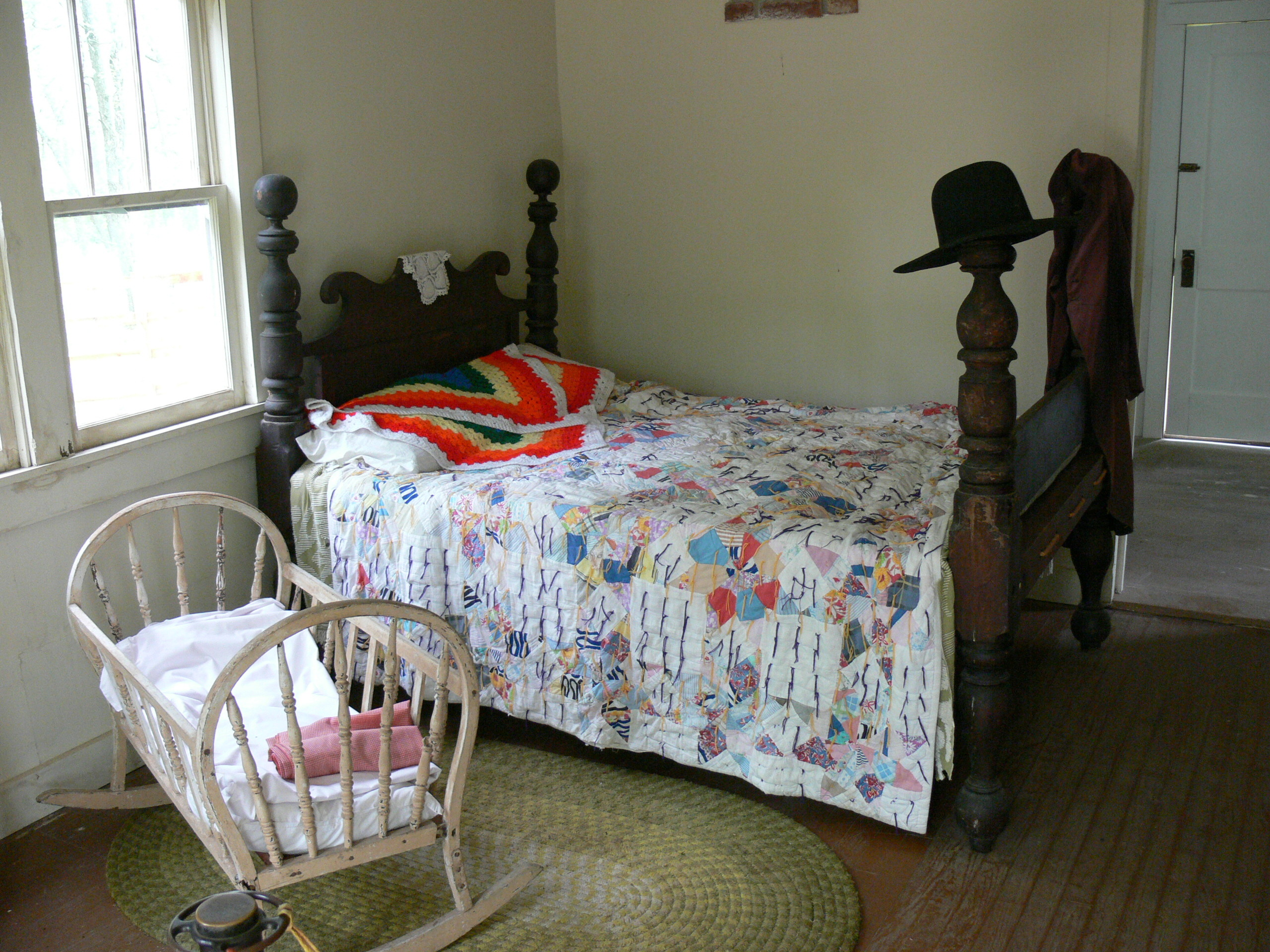 Cherokee Heritage Center ( Tahlequah / Oklahoma ). Adams Corner village: White house ( 19th century ) - Bed and cradle.